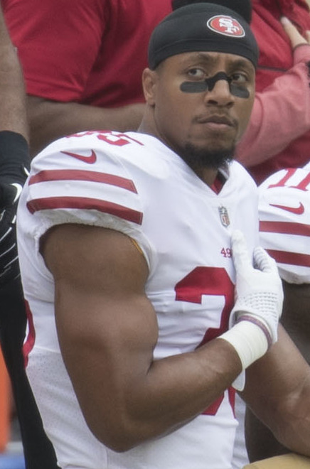 Some members of the San Francisco 49ers kneel during the National Anthem before a game against the Washington Redskins at FedEx Field on October 15, 2017 in Landover, Maryland.